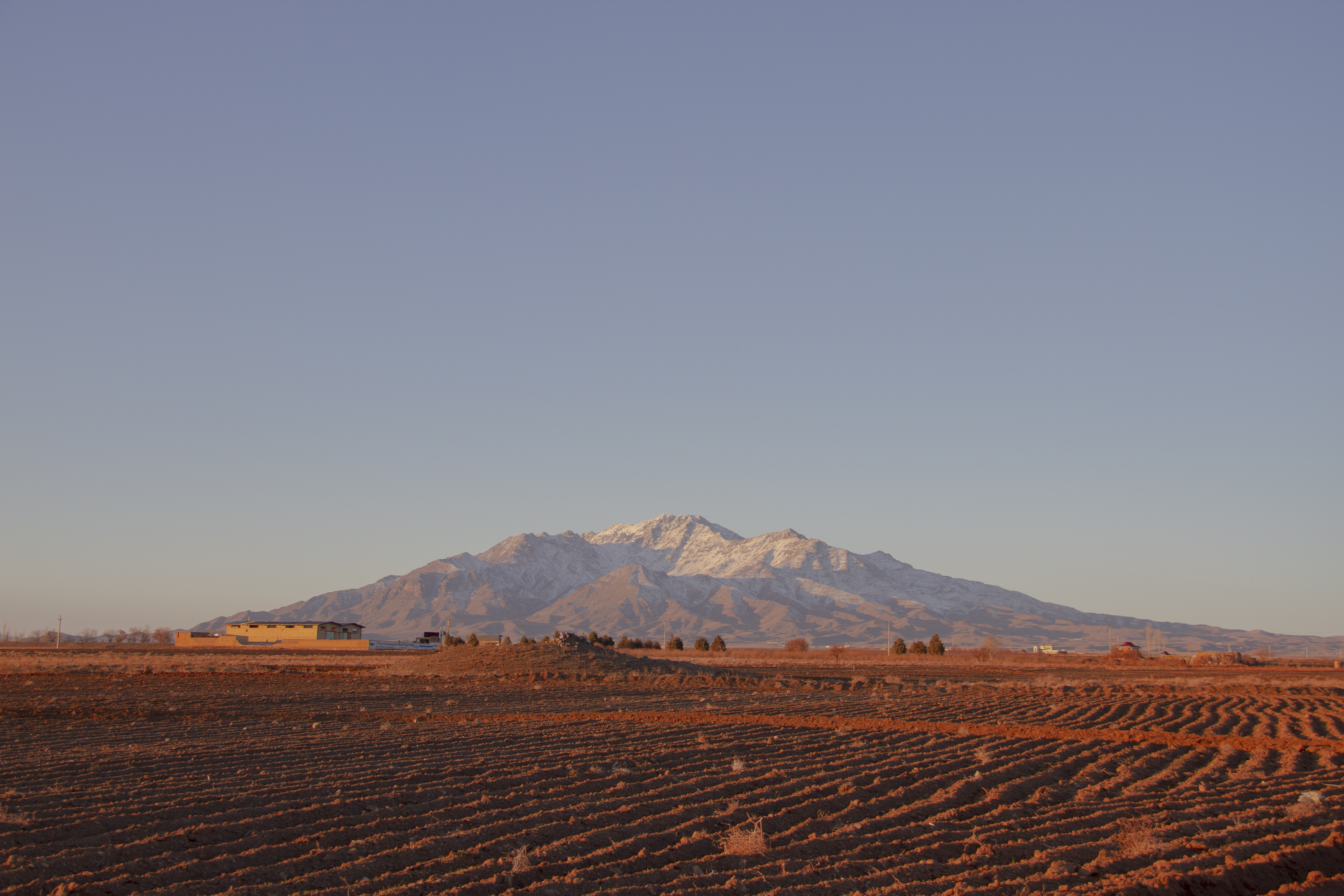 Qom Province, is one of the 31 provinces of Iran with 11,237 km², covering 0.89% of the total area in Iran.